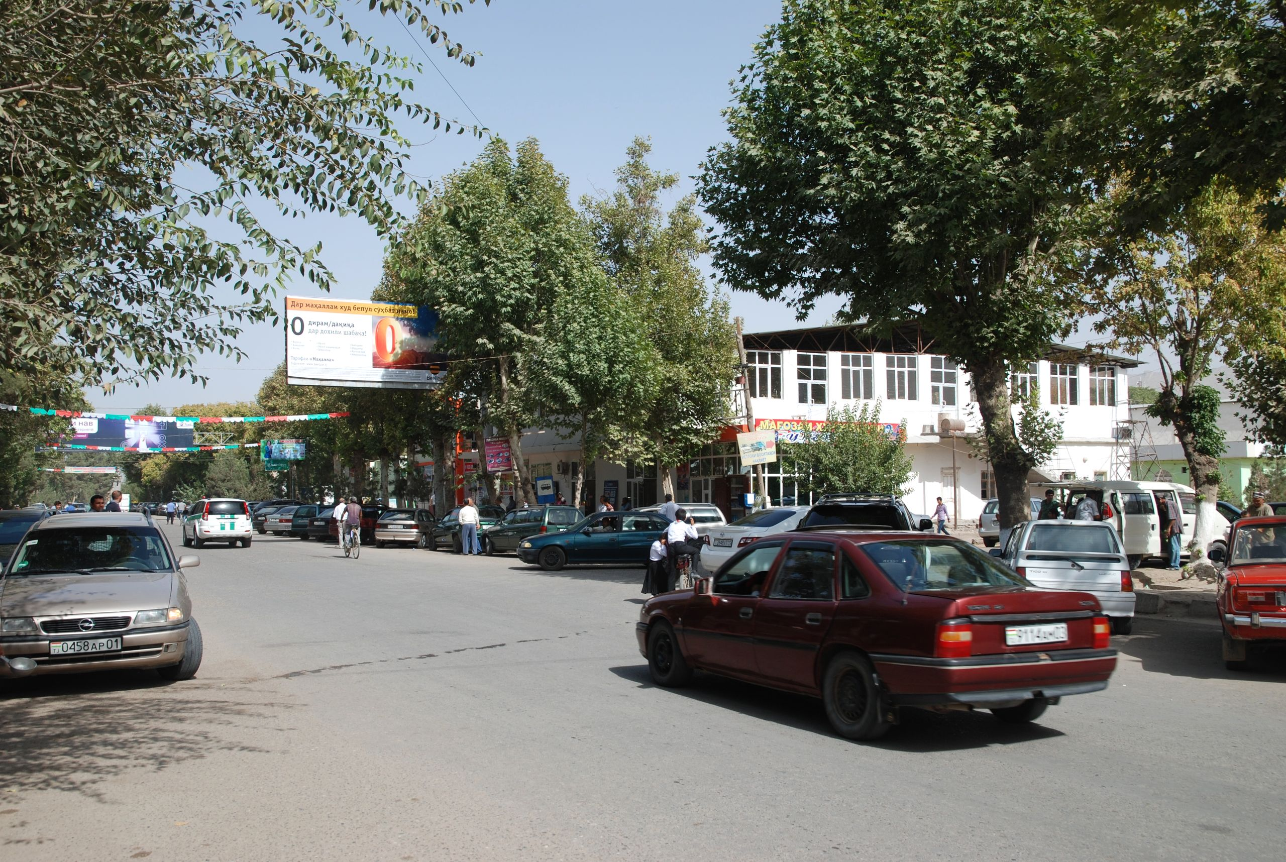 Qabodiyon, center